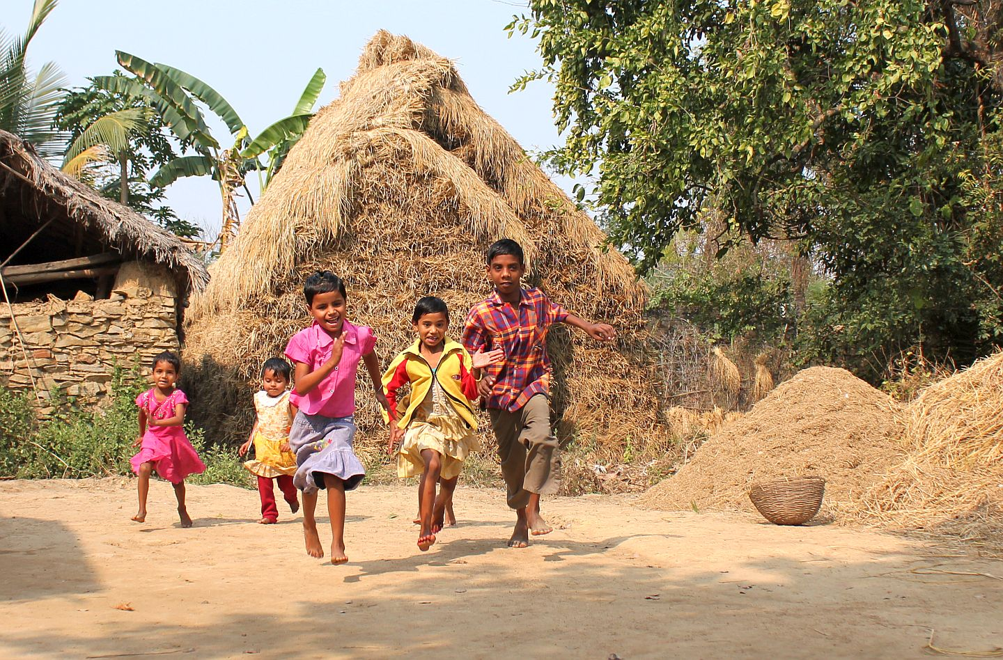 Will to Win..Children from village of west Bengal.,India.